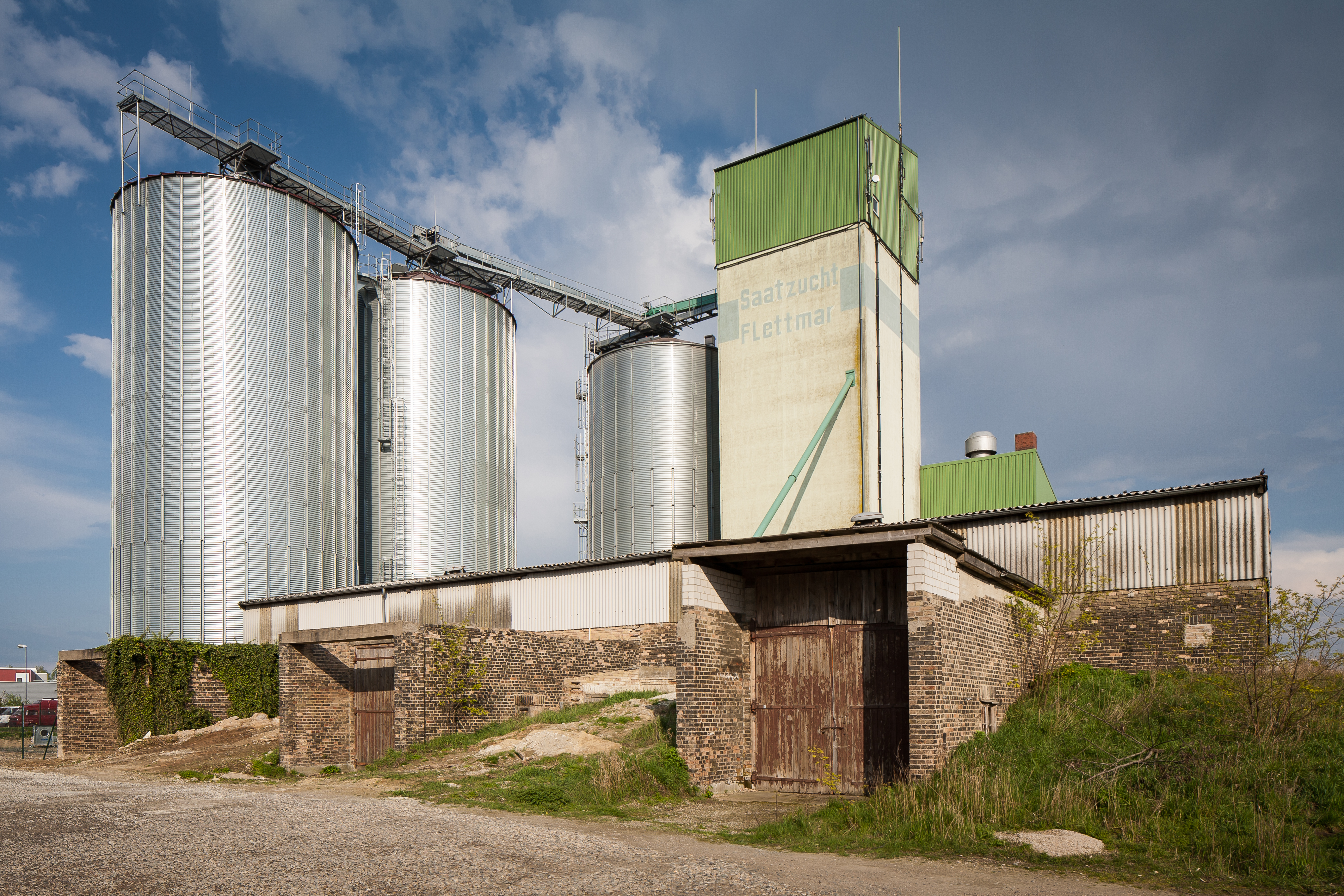 Silo of a seed cultivation company located at the port of Brunswick in Germany.